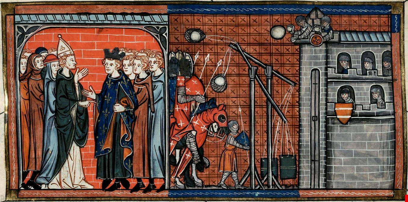 Detail of a miniature of the siege of Rochelle, with king Louis VIII meeting a bishop, a cardinal and friars, at the beginning of chapter 3 of 'Louis VIII' book.